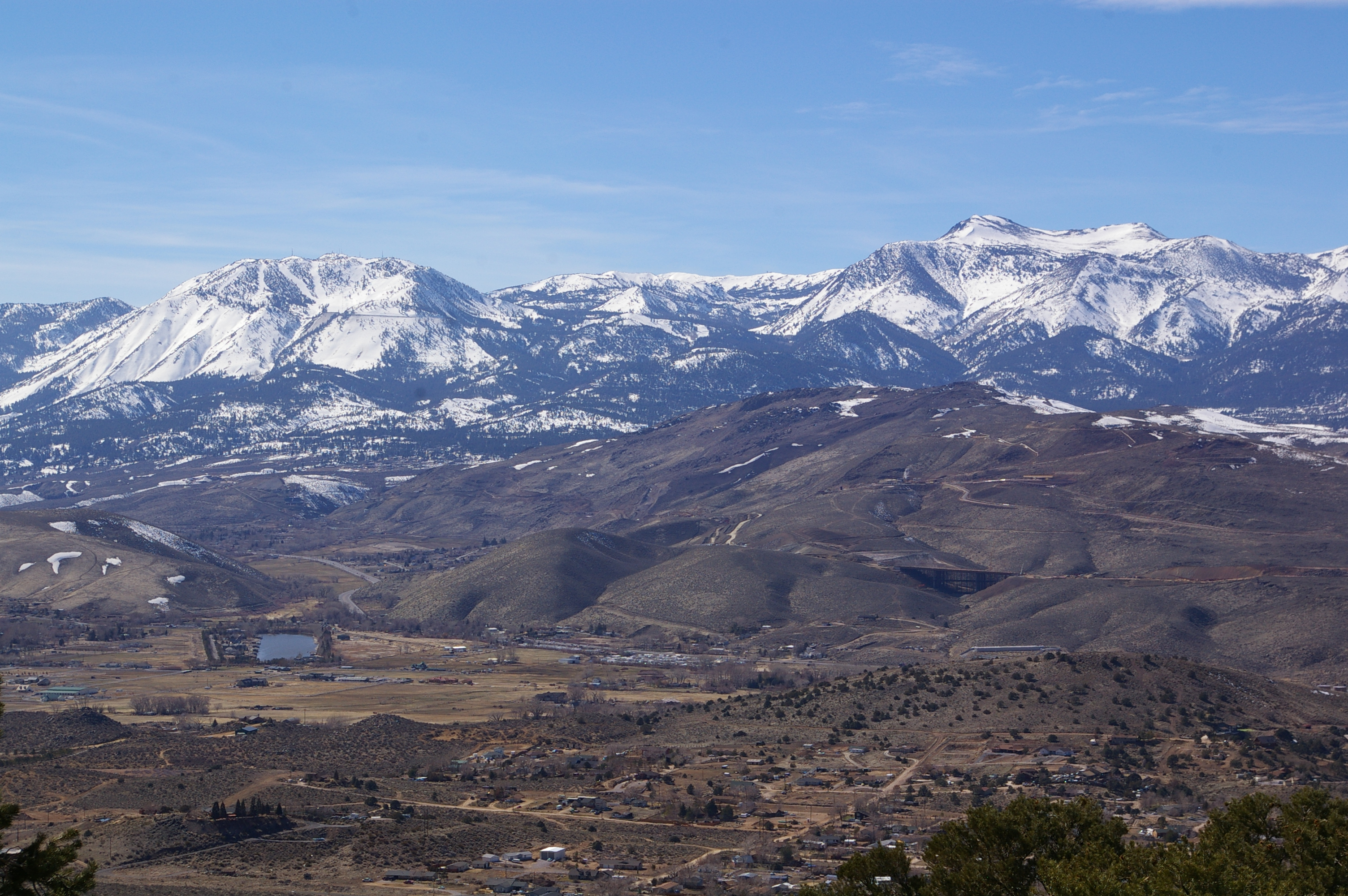 View from Geiger Grade (Nevada State Route 341) of the construction of Interstate 580 south of Reno, Nevada.